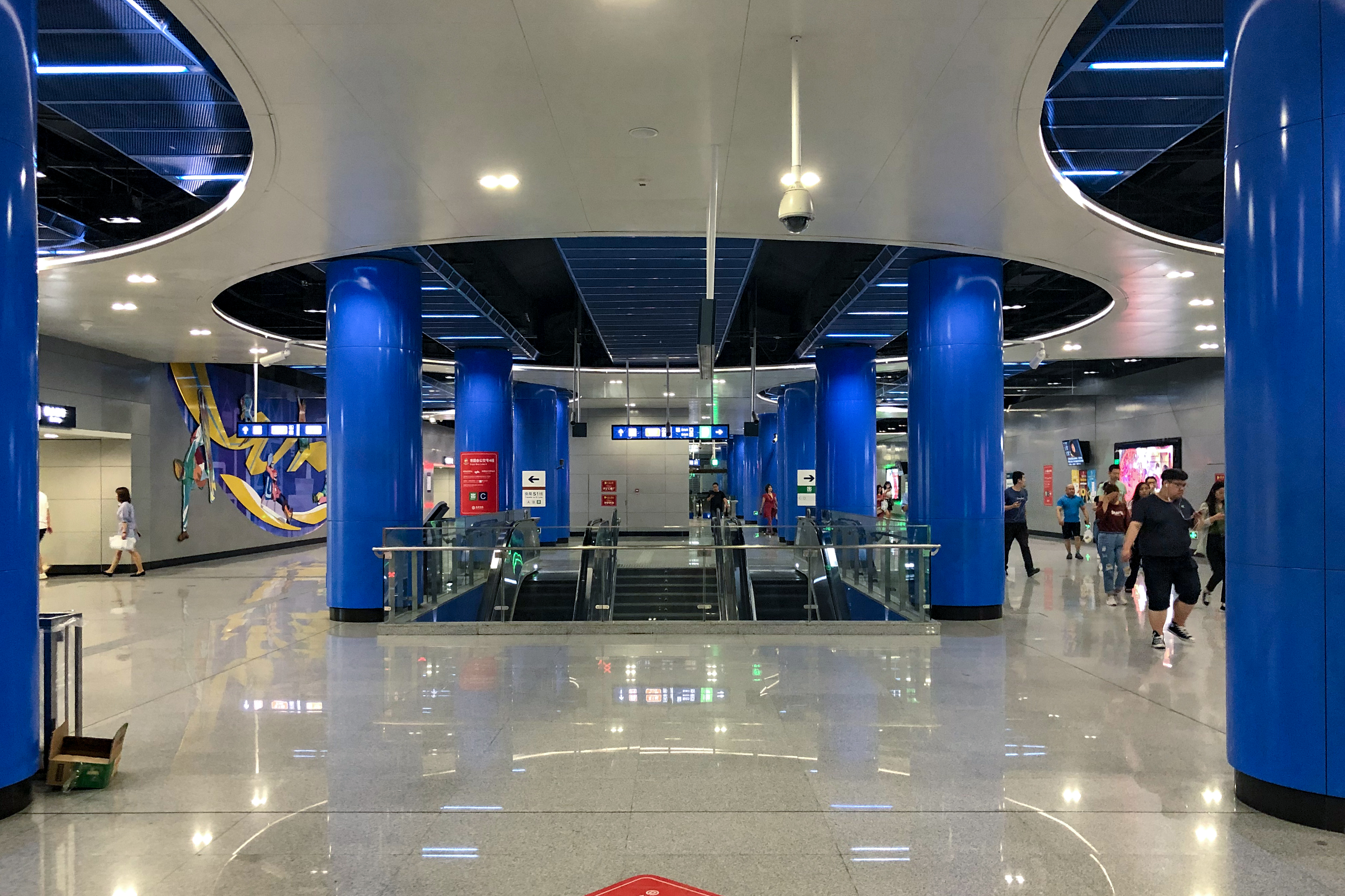 First entry after nearly half a year...